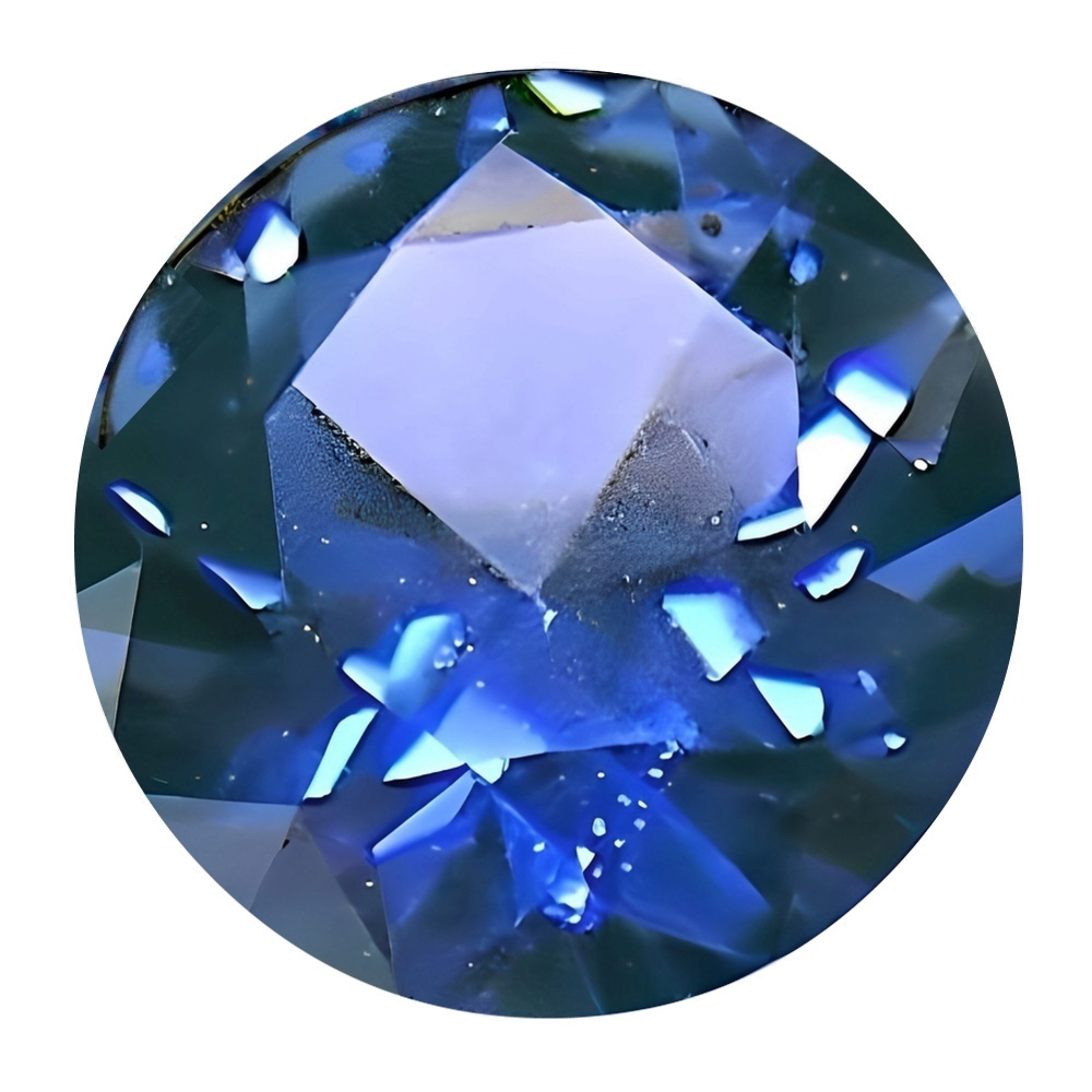 Yogo Sapphire, 0.65 carat AAA quality gem, gem mined in Yogo gulch, Montana, image taken at Barnes Jewelry, Helena, MT with permission of owners